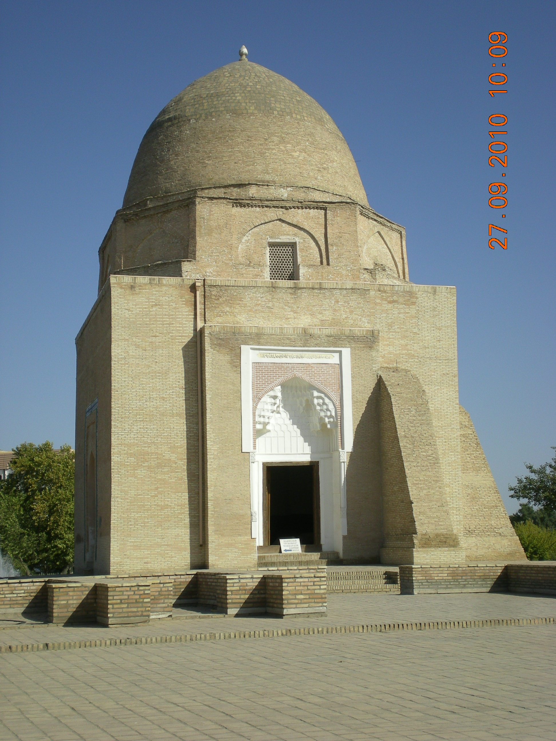 The tomb of Tamerlane